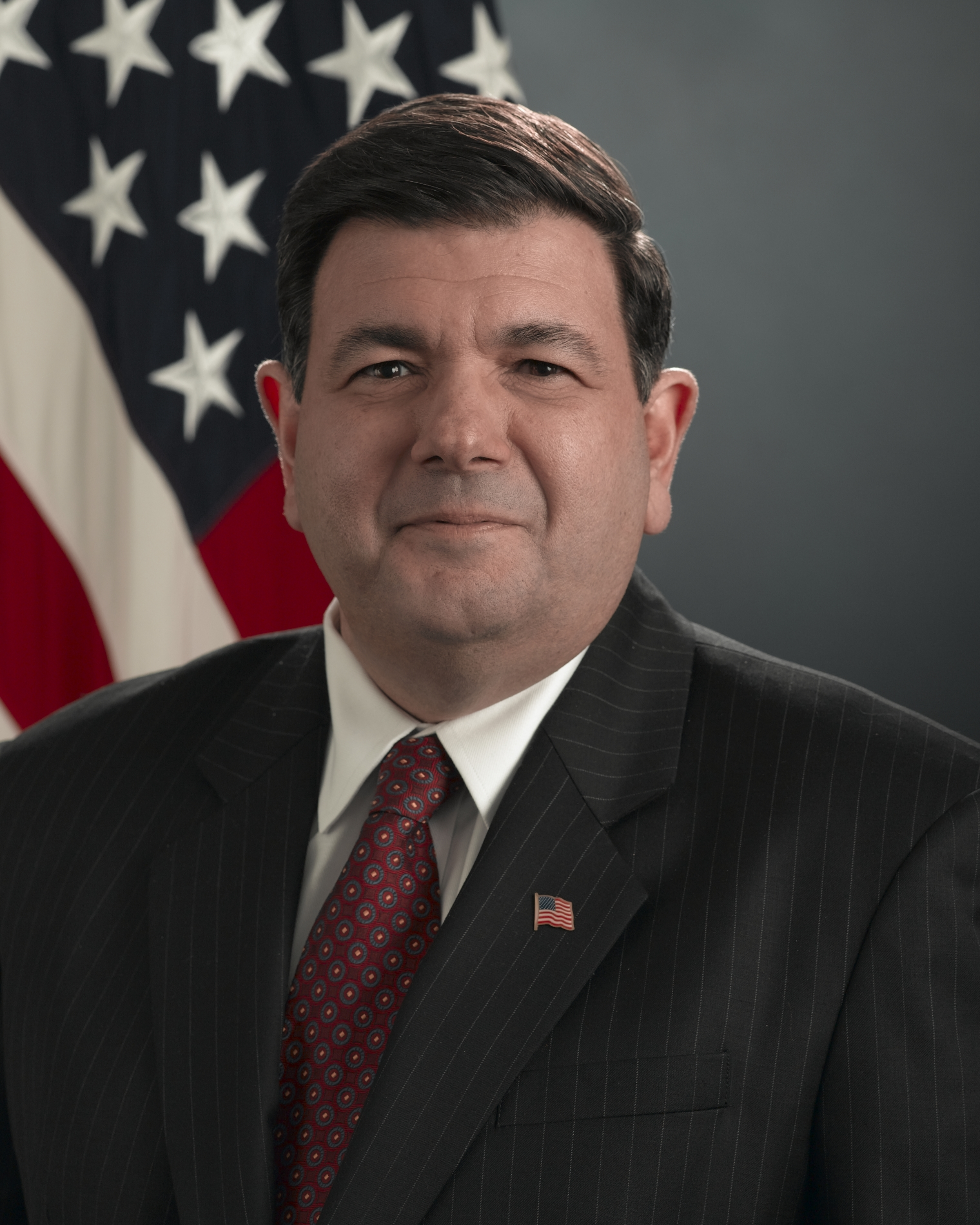 Official photo of Assistant Secretary, Zachary Lemnios